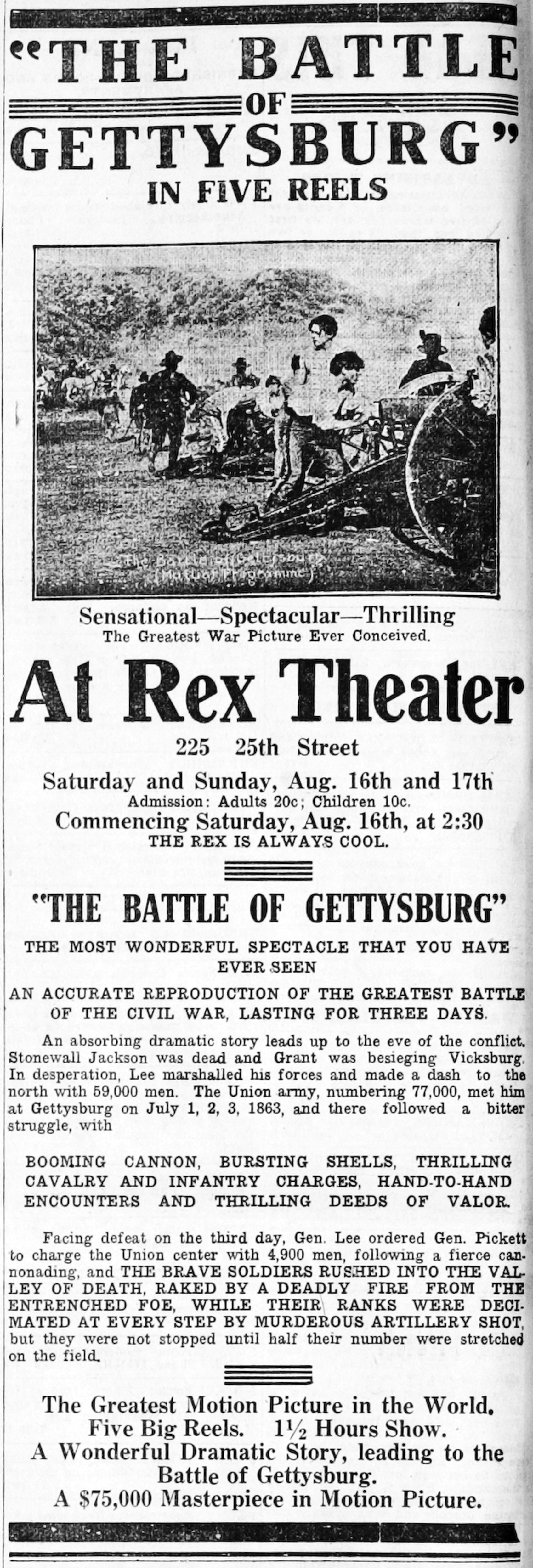 The Battle of Gettysburg was a 1913 American silent drama film directed by Charles Giblyn and Thomas H. Ince. This is a contemporary newspaper advertisement for the film.